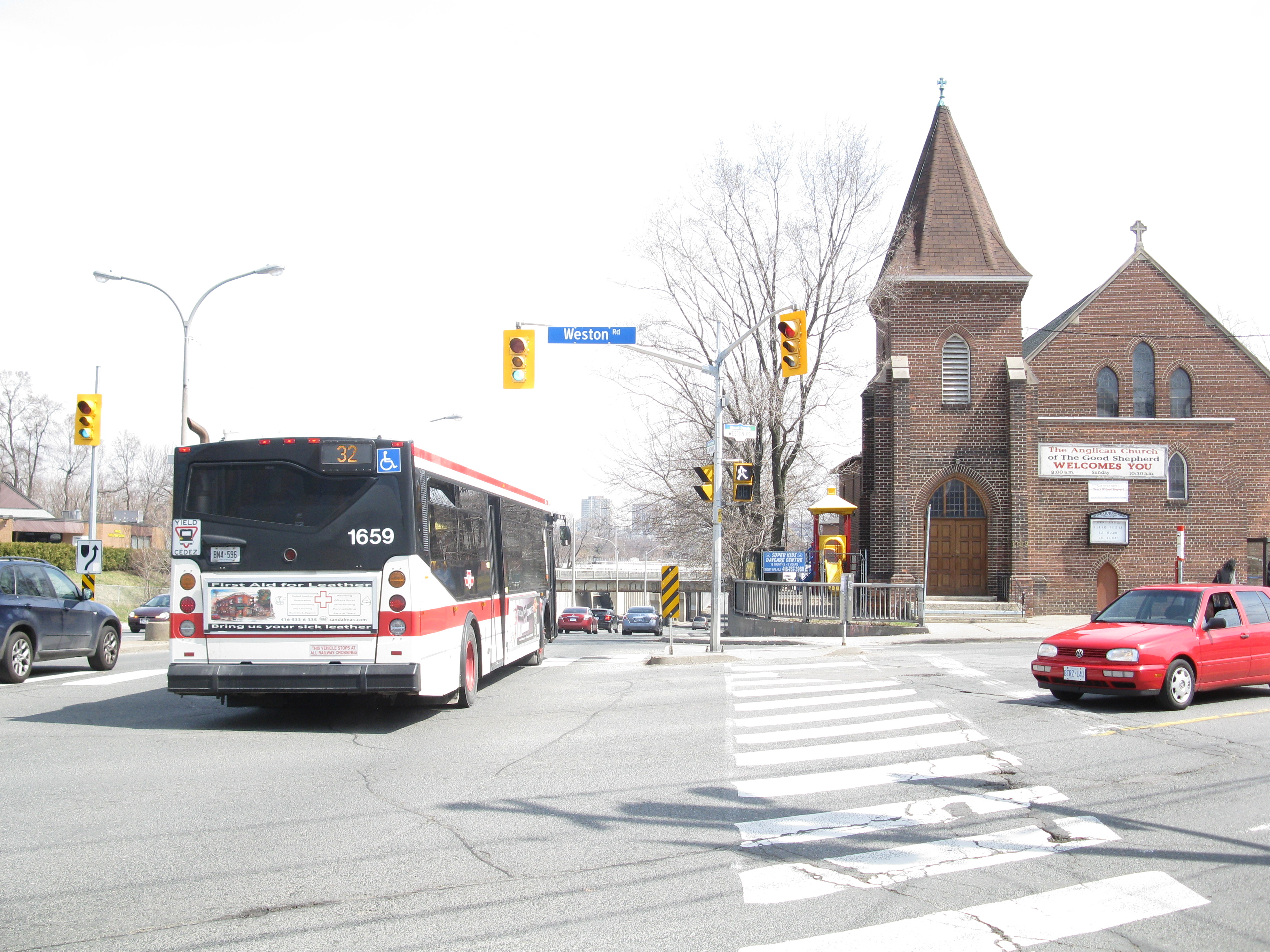 Viewing Weston and Eglinton from the SW corner, 2013 04 09 -c